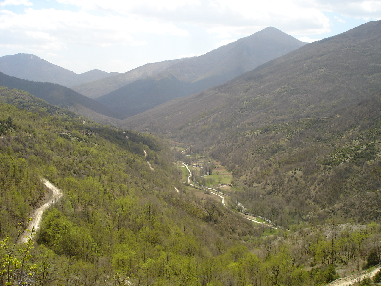 Babuna river valley in Azot region, Macedonia